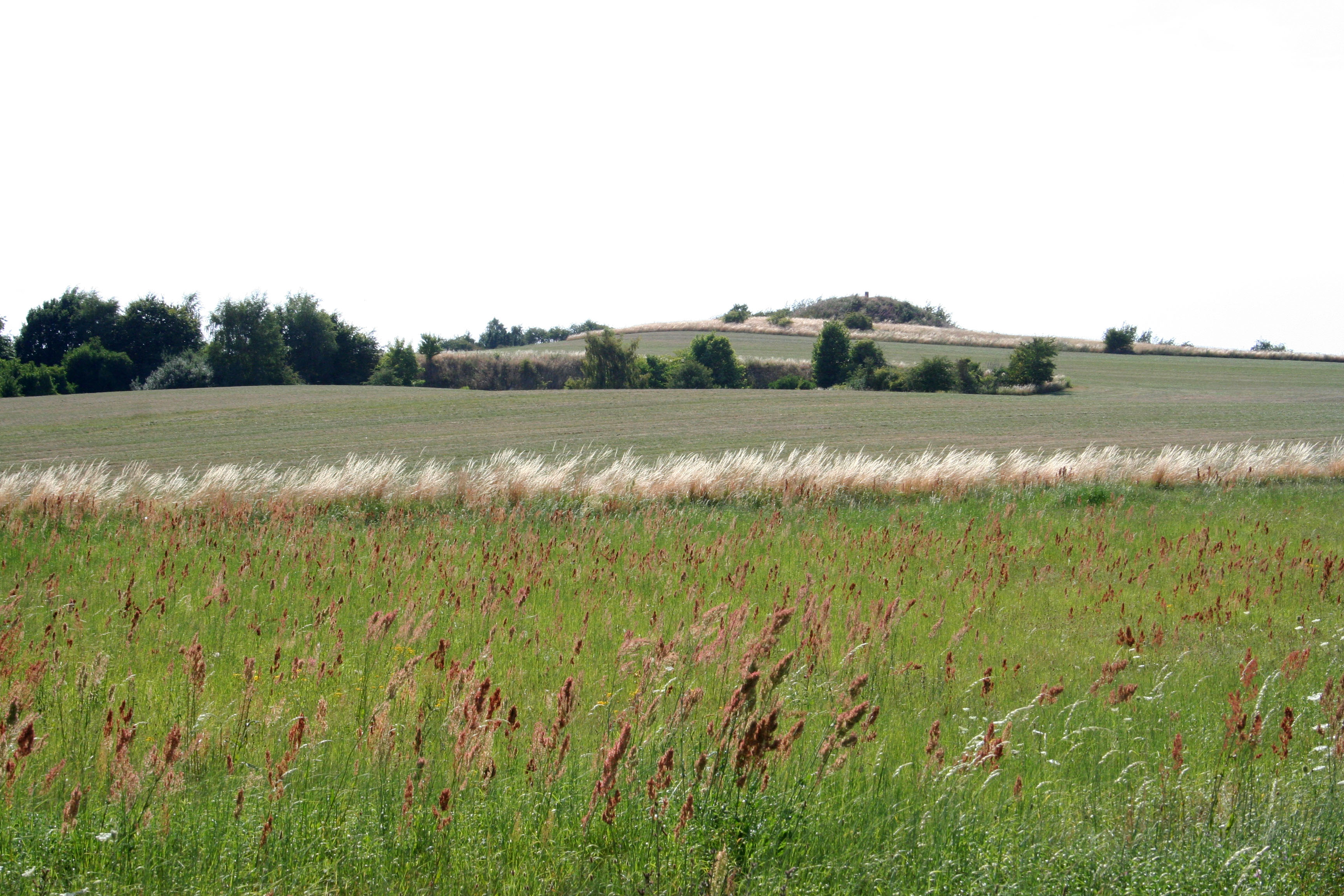 Tumulus (burial mound) Maglehøj near Frederiksværk, Denmark